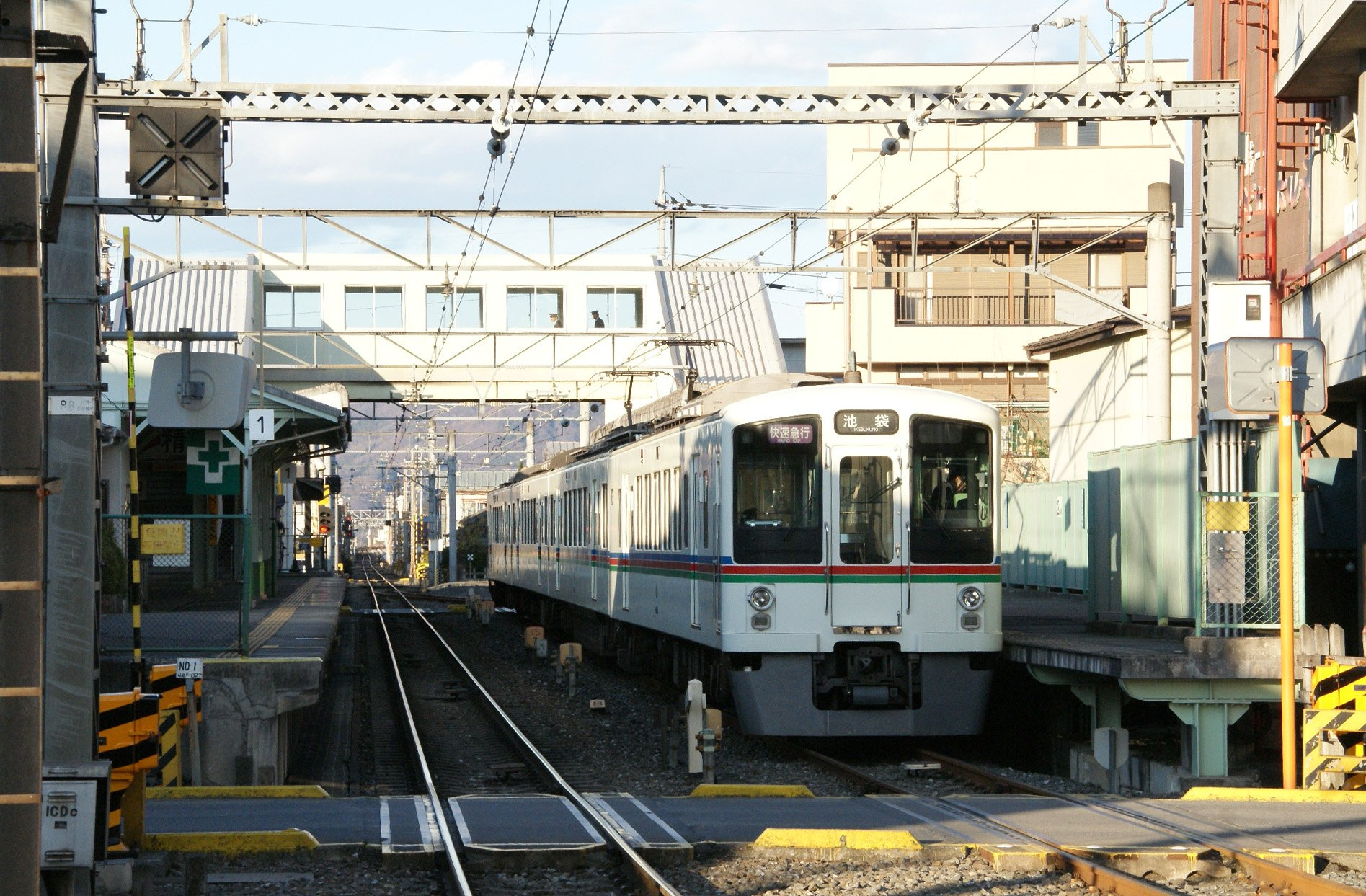 Seibu 4000 series 4-car EMU set 4001 at Ohanabatake Station on the Chichibu Main Line with a through-running Seibu "Rapid Express" service to Ikebukuro